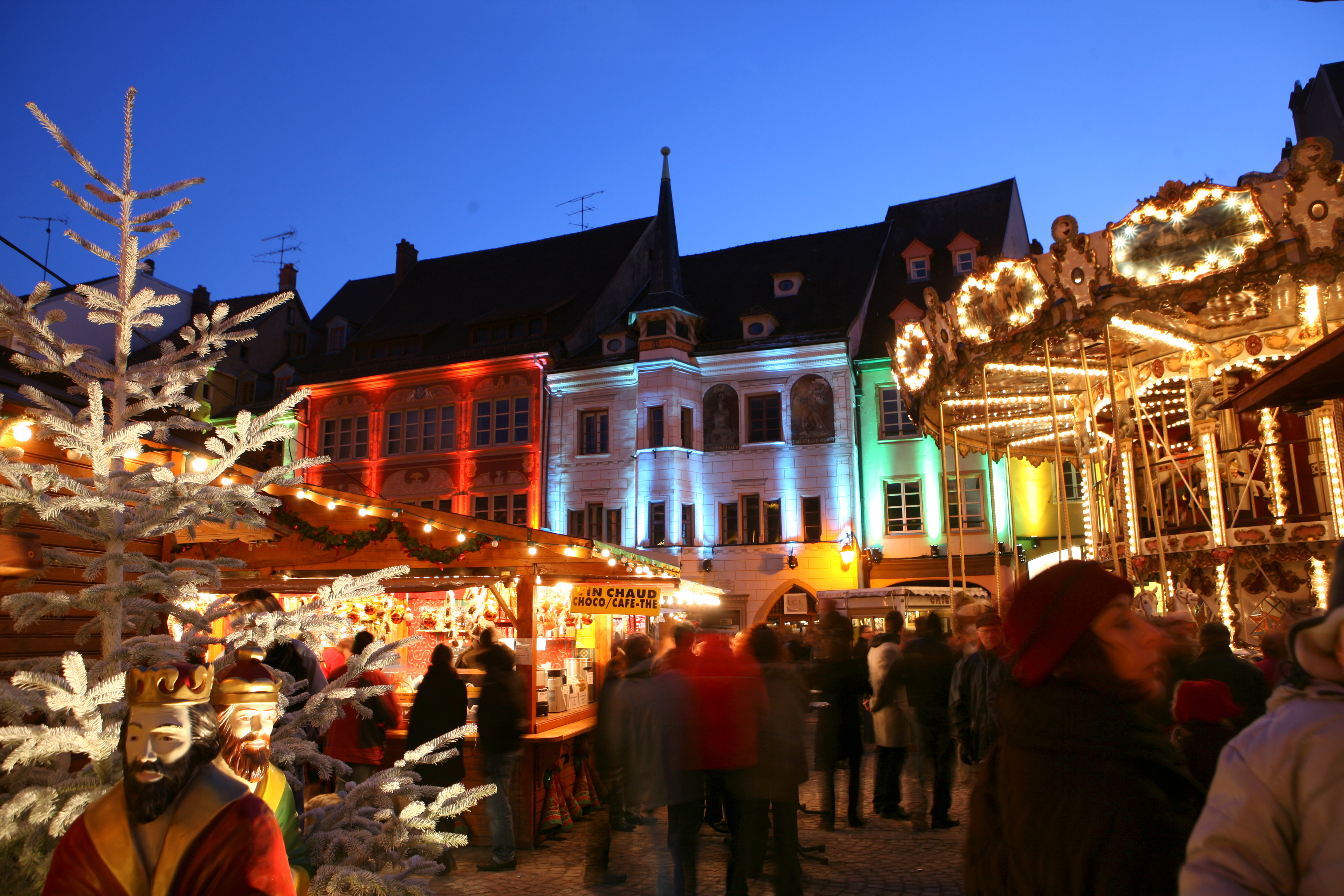 Christmas market of Mulhouse in 2008